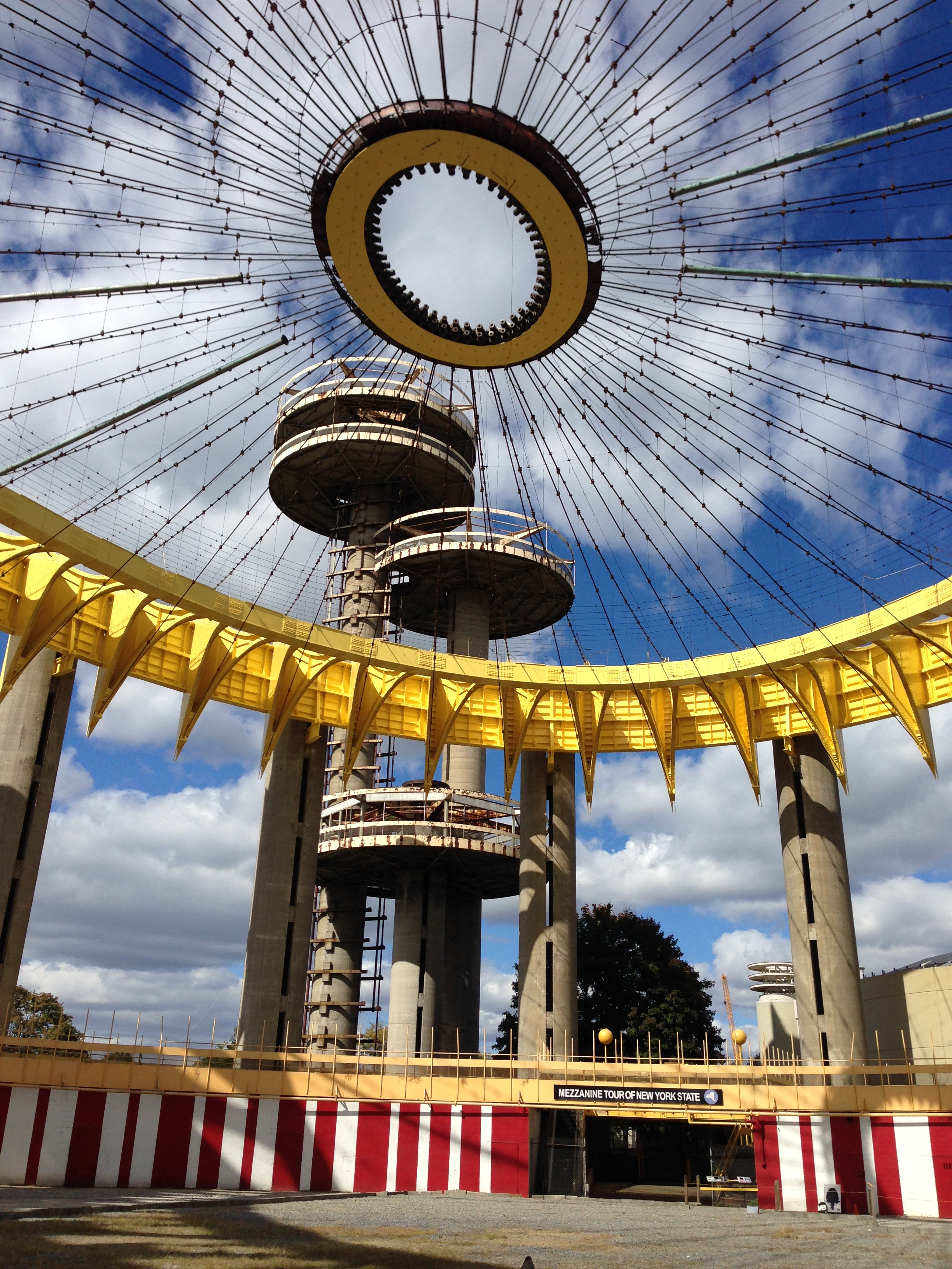 Red, White and Blue with American Cheese too, please!Site: NY State Pavilion